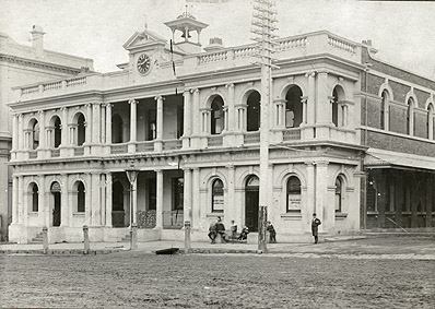 Orange Post Office Dated: No date Digital ID: 4346_a020_a020000126 Rights: We'd love to hear from you if you use our photos. Many other photos in our collection are available to view and browse on our website using Photo Investigator.